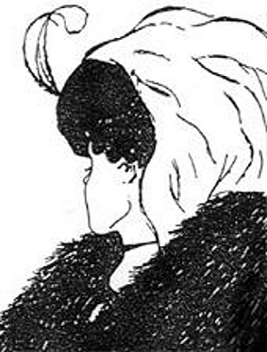 My Wife and My Mother-In-Law, by the cartoonist W. E. Hill, 1915 (adapted from a picture going back at least to a 1888 German postcard)